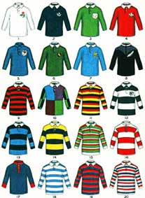 Famous Rugby Jerseys, early 1920s boys magazine illustration of the playing strips of the top clubs and countries This picture is the copyright of the Lordprice Collection and is reproduced on Wikipedia with their permission Top row: England, Scotland, Ireland, Wales 2nd row: France, South Africa, Australia, New Zealand 3rd row: Blackheath*, Harlequins, Richmond*, Barbarians* 4th row: Cardiff, Newport* (and other clubs, e.g. Wasps), Leicester, Gloucester* Bottom row: Stade Francais, Racing Club de France* (and other clubs, e.g. Cambridge), United Services*, Birkenhead Park Note: *Similar to jerseys worn by other clubs. Drawn for the "Boy's Own Paper" by V. Wheeler-Holoman.